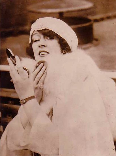 Actress Olga Petrova. Photograph in personal collection